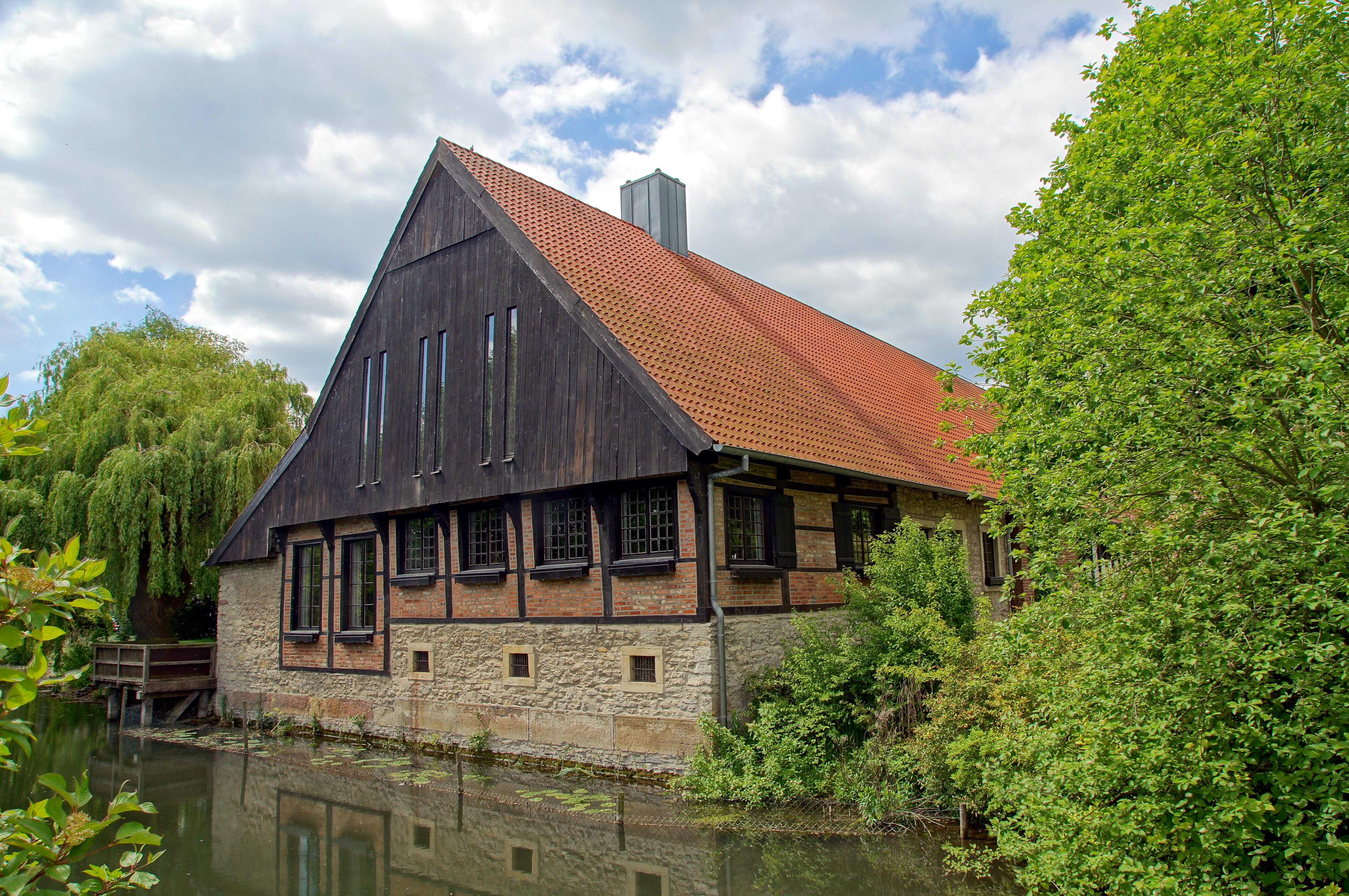 Historic town hall (1599) in Laer, district of Steinfurt, North Rhine-Westphalia, Germany. This is a photograph of an architectural monument. 12